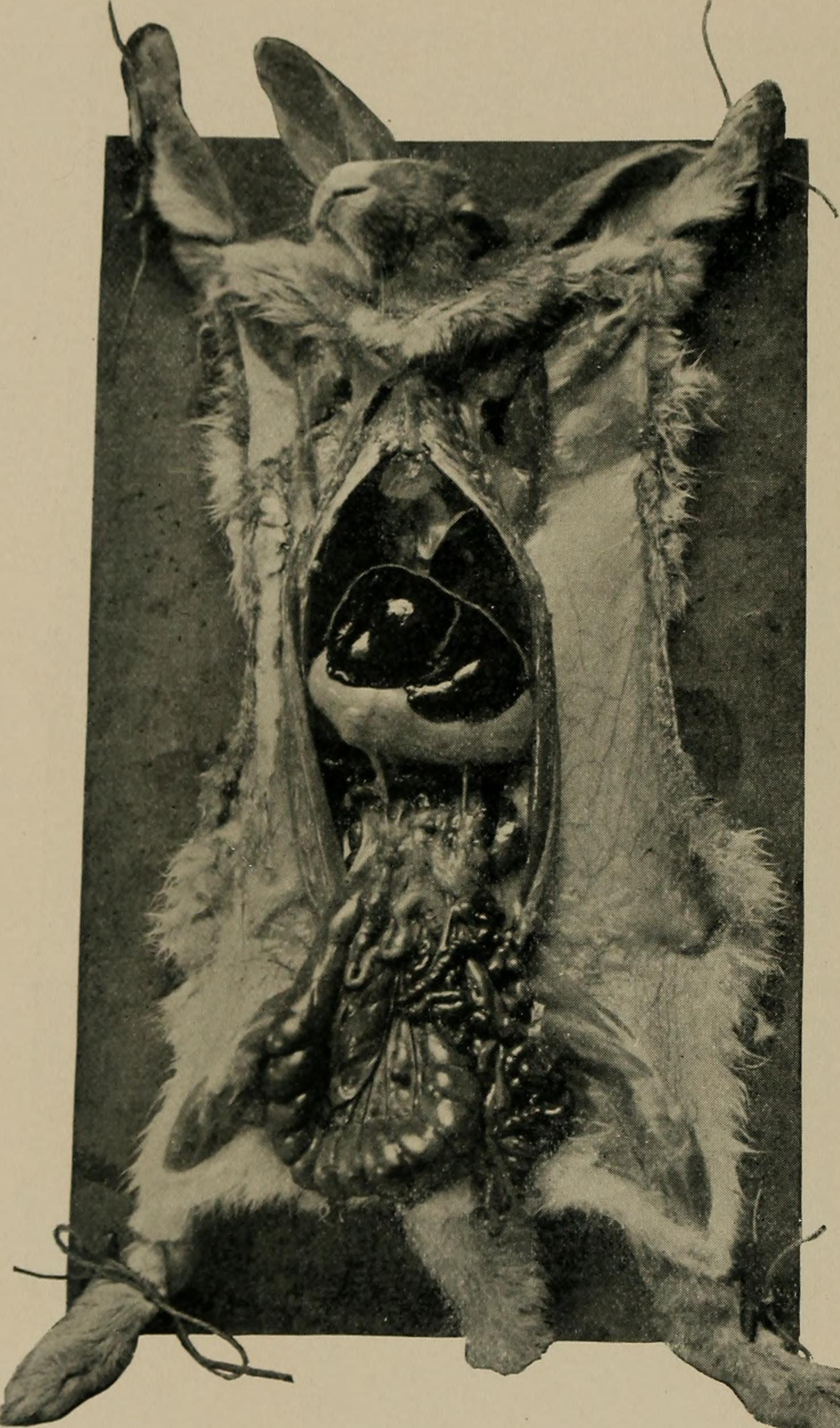 Title: Post-mortem pathology; a manual of post-mortem examinations and the interpretations to be drawn therefrom; a practical treatise for students and practitioners Year: 1905 (1900s) Authors: Cattell, Henry Ware, 1862-1936. (from old catalog) Subjects: Anatomy, Pathological Autopsy Publisher: Philadelphia and London, J. B. Lippincott company Text Appearing Before Image: Fig. 173.—Post-mortem examination of guinea-pig, made in Ravenel pan. Near thefour corners, but not shown in the illustration, are hooks upon which the chains arefastened in order to hold the animal in position. Text Appearing After Image: Fig. 174.—Post-moitem examination of a rabbit. BACTERIOLOGIC INVESTIGATIONS 355 is included in the fold, and the hypodermic needle is passed throughthe fold near its base. The fold is then released, but the syringe isheld steady. The parietes now flatten out, leaving the needle free inthe peritoneal cavity. The fluid is then slowly injected. (Fig. 171.) Intravenous inoculation is not usually practised in animals smallerthan a rabbit. In this animal the posterior auricular vein is the oneselected for the operation. (Fig. 172.) If a guinea-pig should bechosen, the jugular vein is selected and an anaesthetic is used, the A. C.E. mixture being preferred for general and cocaine for local anaes-thesia. The animal is held by an assistant or securely wrapped in atowel fastened with pins, the selected ear is grasped by the root andstretched forward towards the operator, the dorsum of the ear havingbeen previously shaven and cleansed. The syringe is held as oneholds a pen, and the needle is t